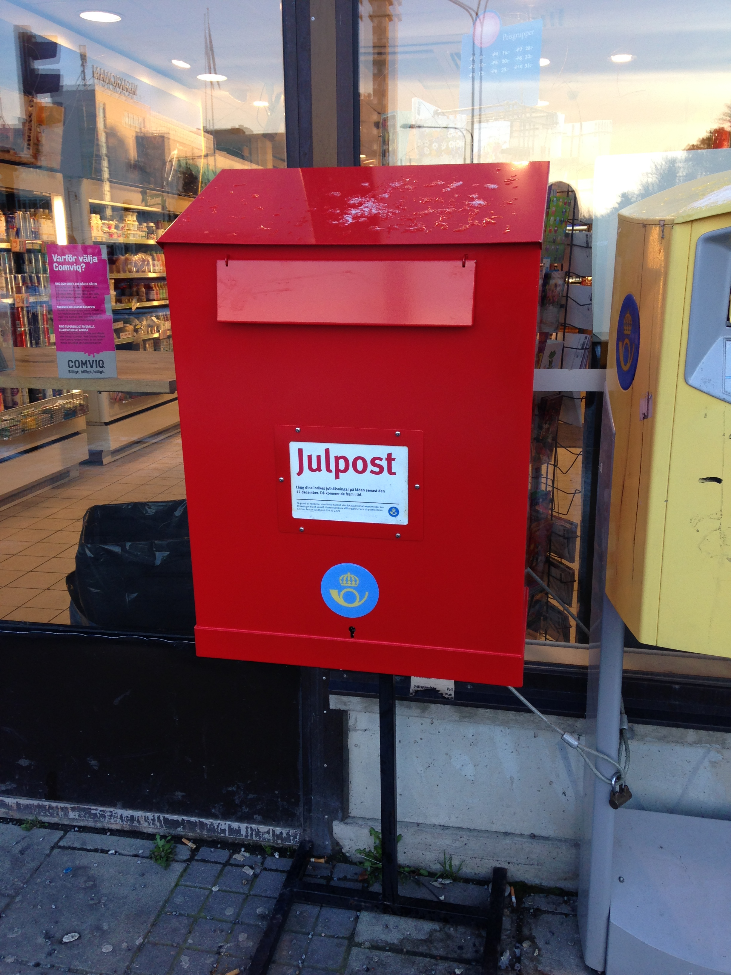 A mailbox exclusive for christmas cards, Stockholm, 2013